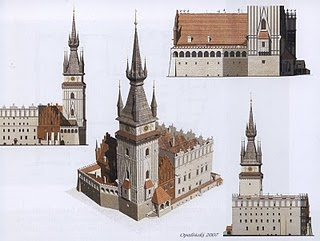 Town Hall of Cracow in ca. 1650